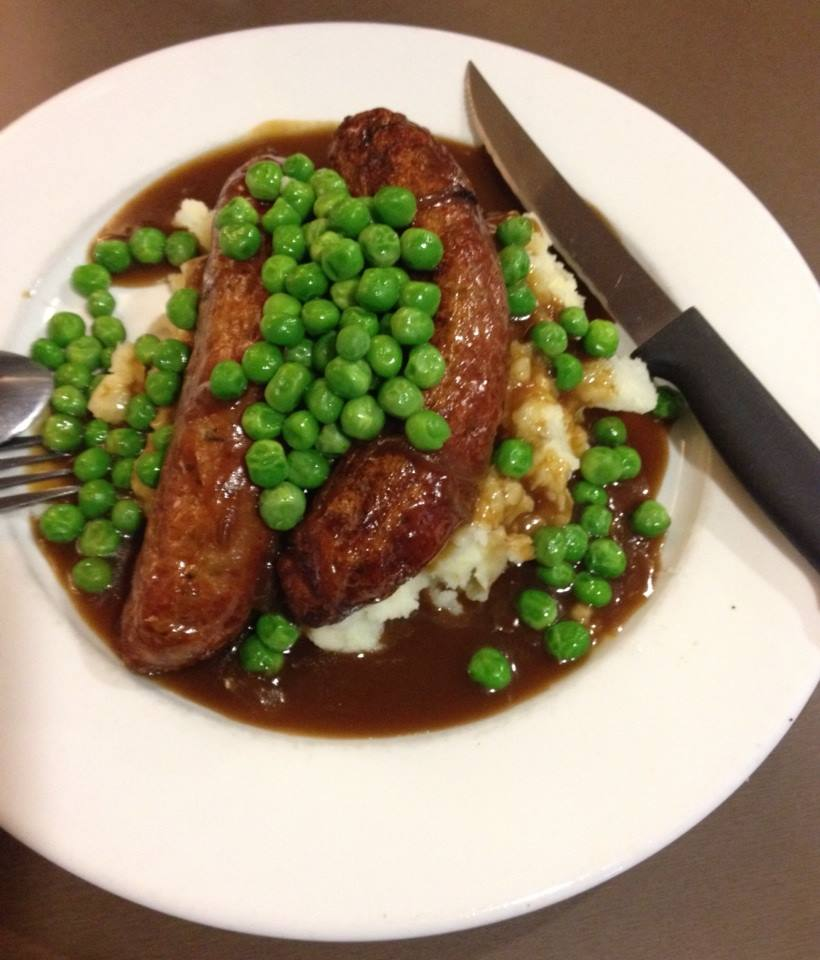 Bangers and mash with peas.